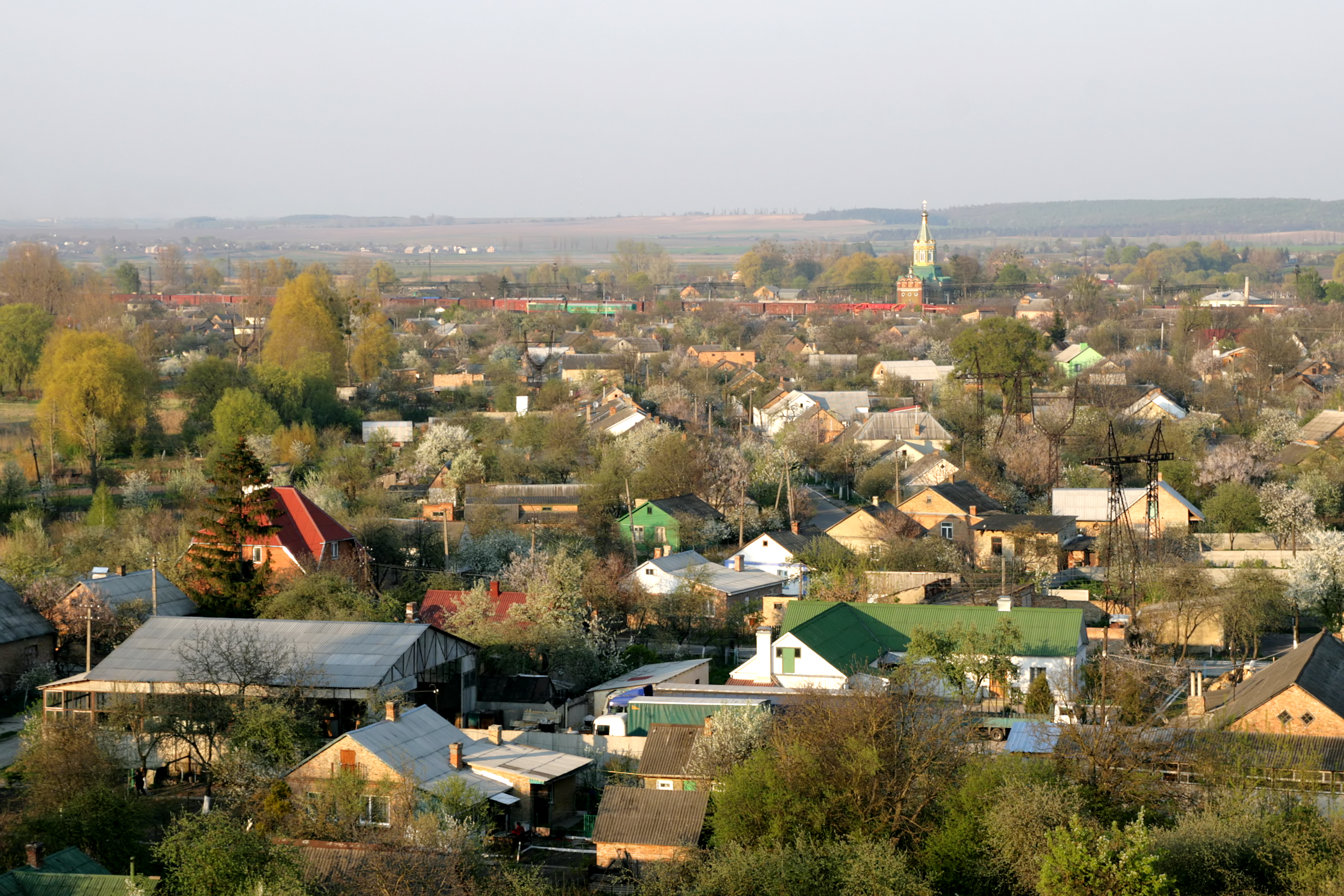 Zdolbuniv town